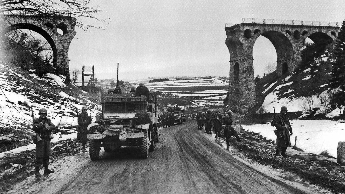 The 1st Battalion of the 26th Infantry Regiment (United States)U.S. 26th Infantry Regiment passing through the railway viaduct north of Bütgenbach, Belgium, on the Monschauer St. (N647) towards Bütgenbach. The railway viaduct was part of the line running from Losheim/Eifel (Germany) to Trois-Ponts, Belgium, and had been blown up by the retreating German troops.